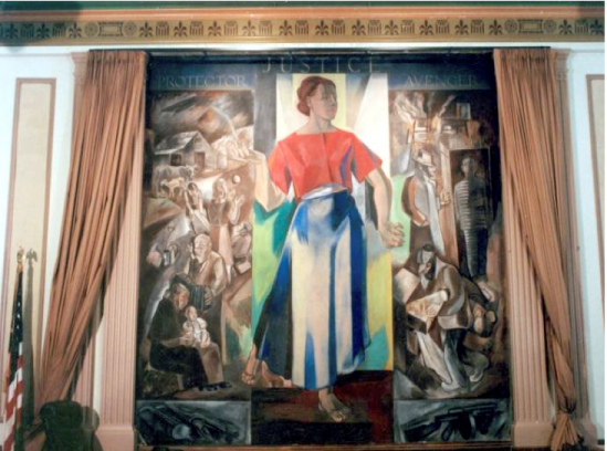 Mural, Justice As Protector and Avenger by Stefan Hirsch, Charles E. Simmons, Jr. Federal Court House, Aiken, South Carolina